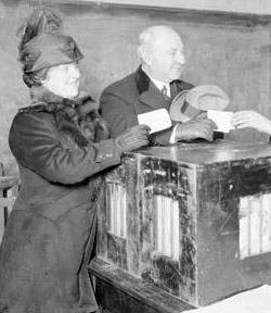 Image of Mr. and Mrs. Robert M. Sweitzer, Cook County clerk and his wife, voting, handing their ballots to an unidentified man in a room in Chicago, Illinois. Ballot boxes are set up on a table between the Sweitzers and the unidentified man.